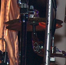 Detail of File:Mike Portnoy.jpg